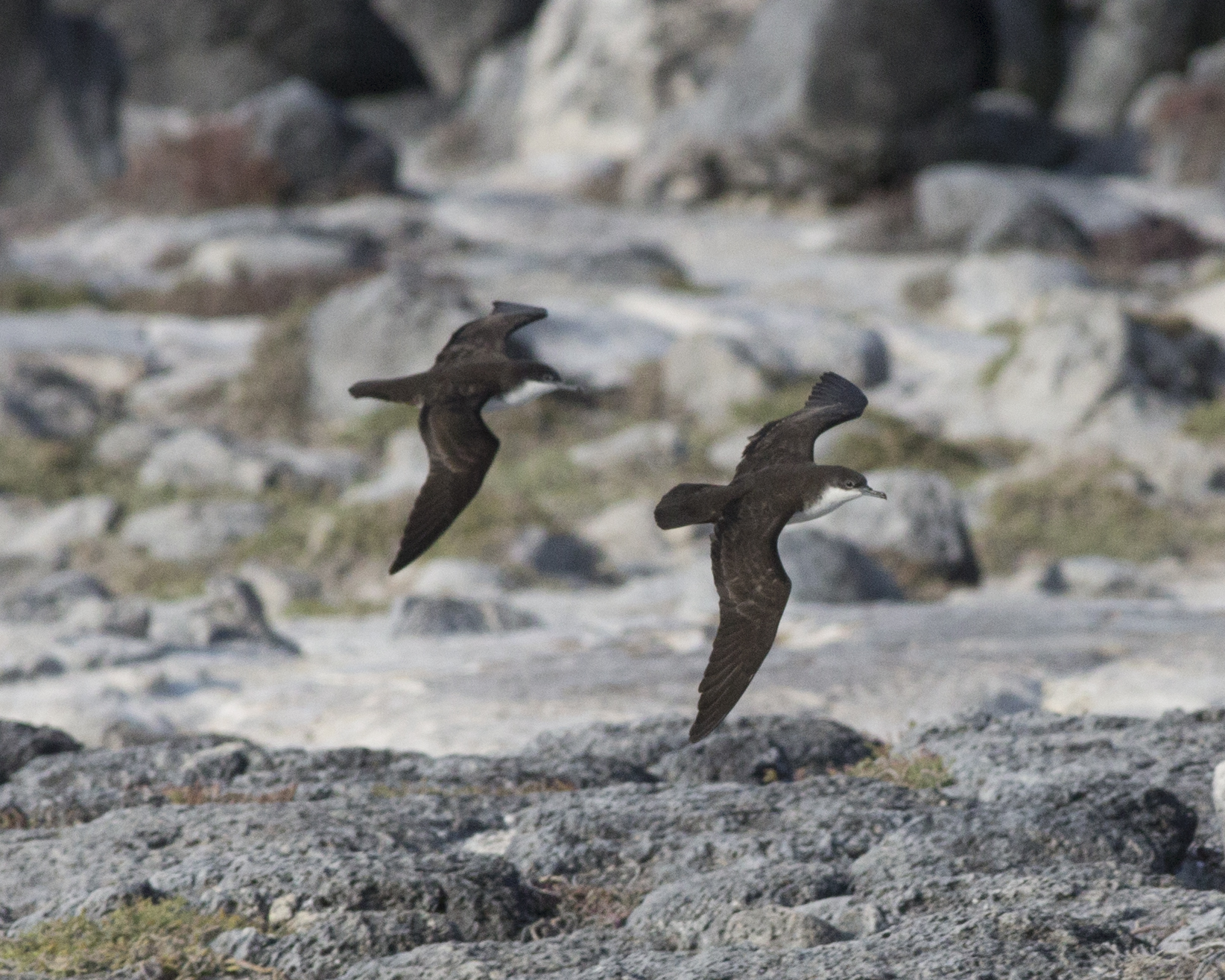 Galapagos Petrel Pterodroma phaeopygia 7th. August 2014 South Plaza, Small island east of Santa Cruz Galapagos, Ecuador PM0A3814